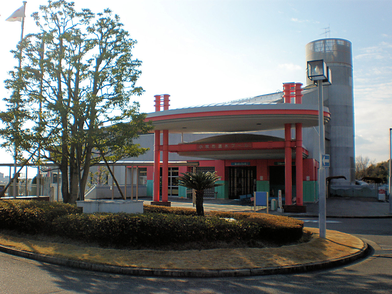 Komaki Water Park is the heated indoor pool in Komaki, Aichi Pref.